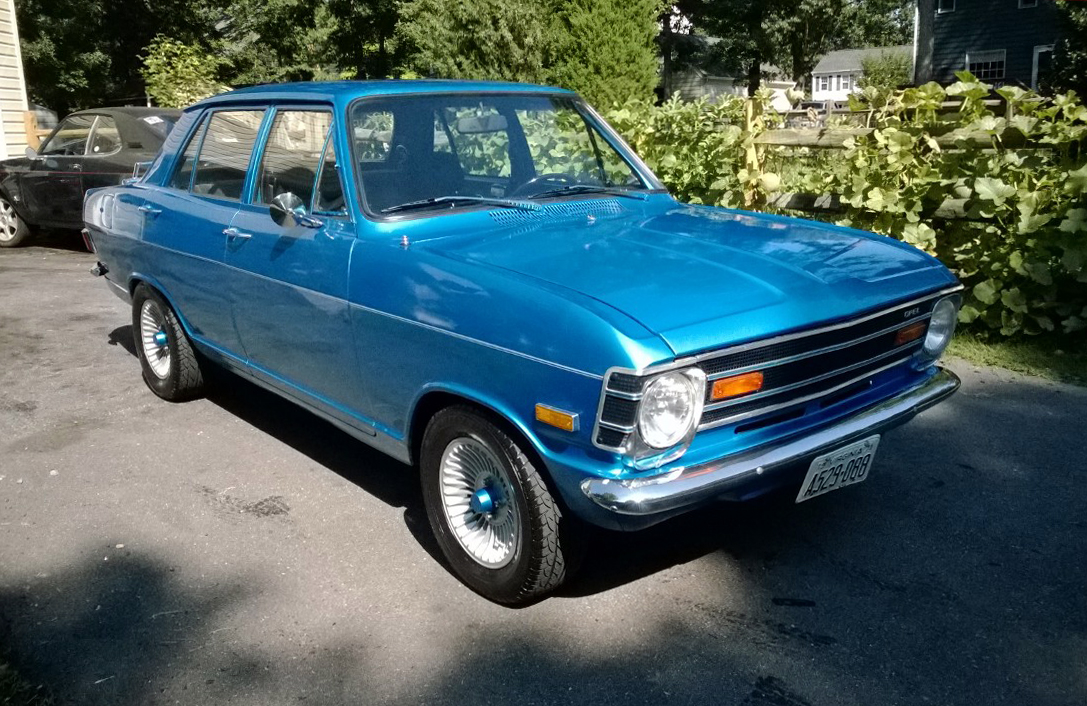 Model 36D 1971 US Spec Opel Kadett